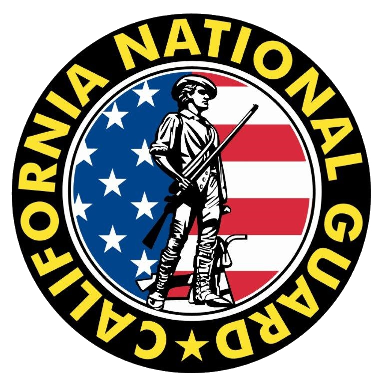 Insignia